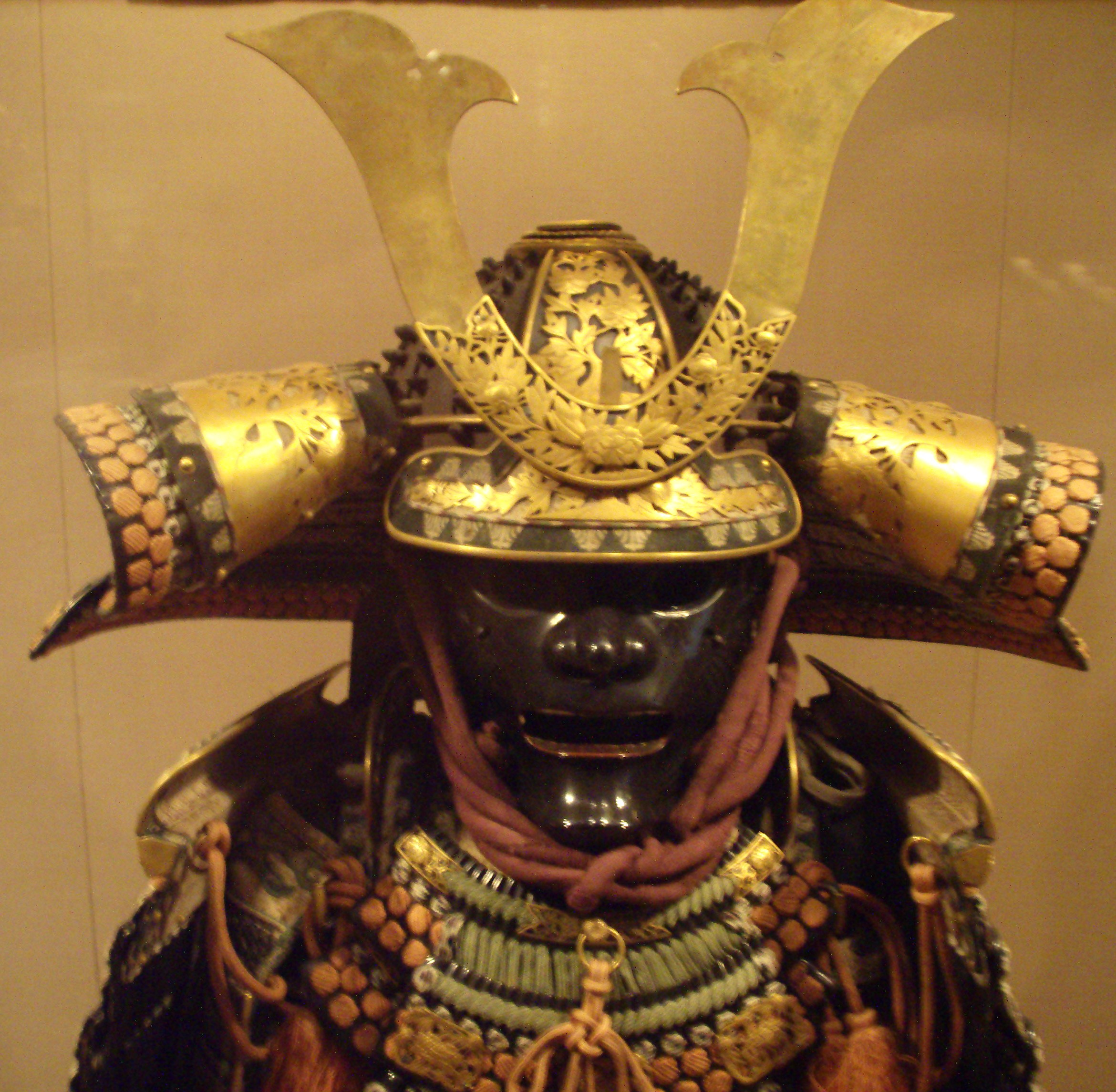 Japanese helm and armor, from Metropolitan Museum of Art in New York.